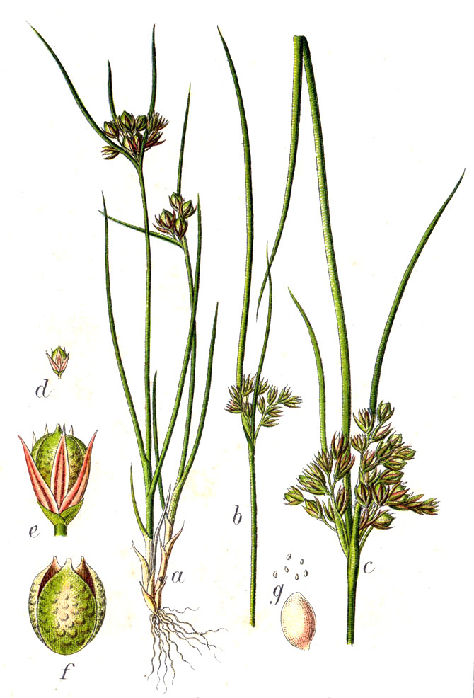 Juncus tenuis Willd. Original Caption Wandernde Binse, Juncus tenuis